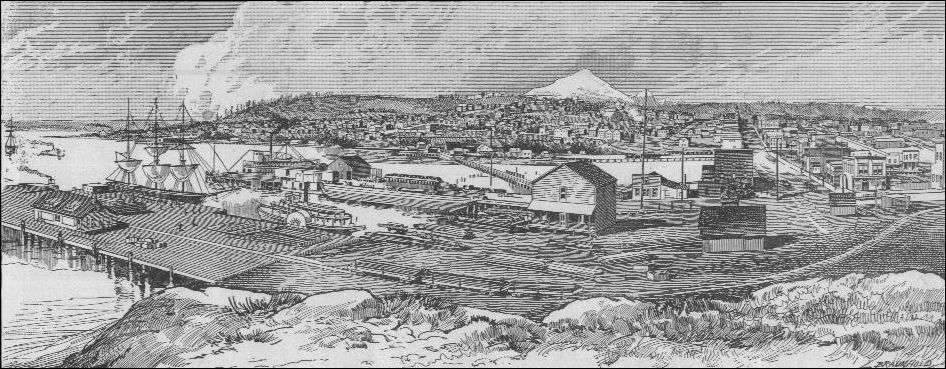 The docks of Fairhaven depicted in an 1890 drawing. On the right is Harris Street running through the town of Fairhaven. In the center is Mount Baker. To the left is Sehome Hill. Originally published in an 1891 edition of Fairhaven Illustrated magazine.